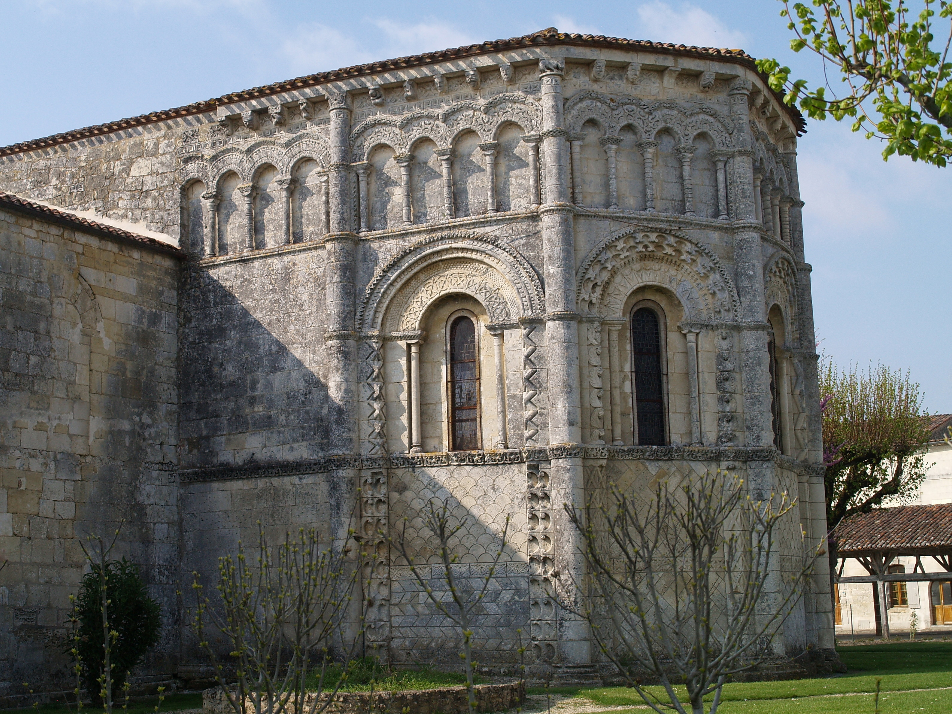 Rioux (Charente-Maritime, France) - Notre-Dame church - the apse